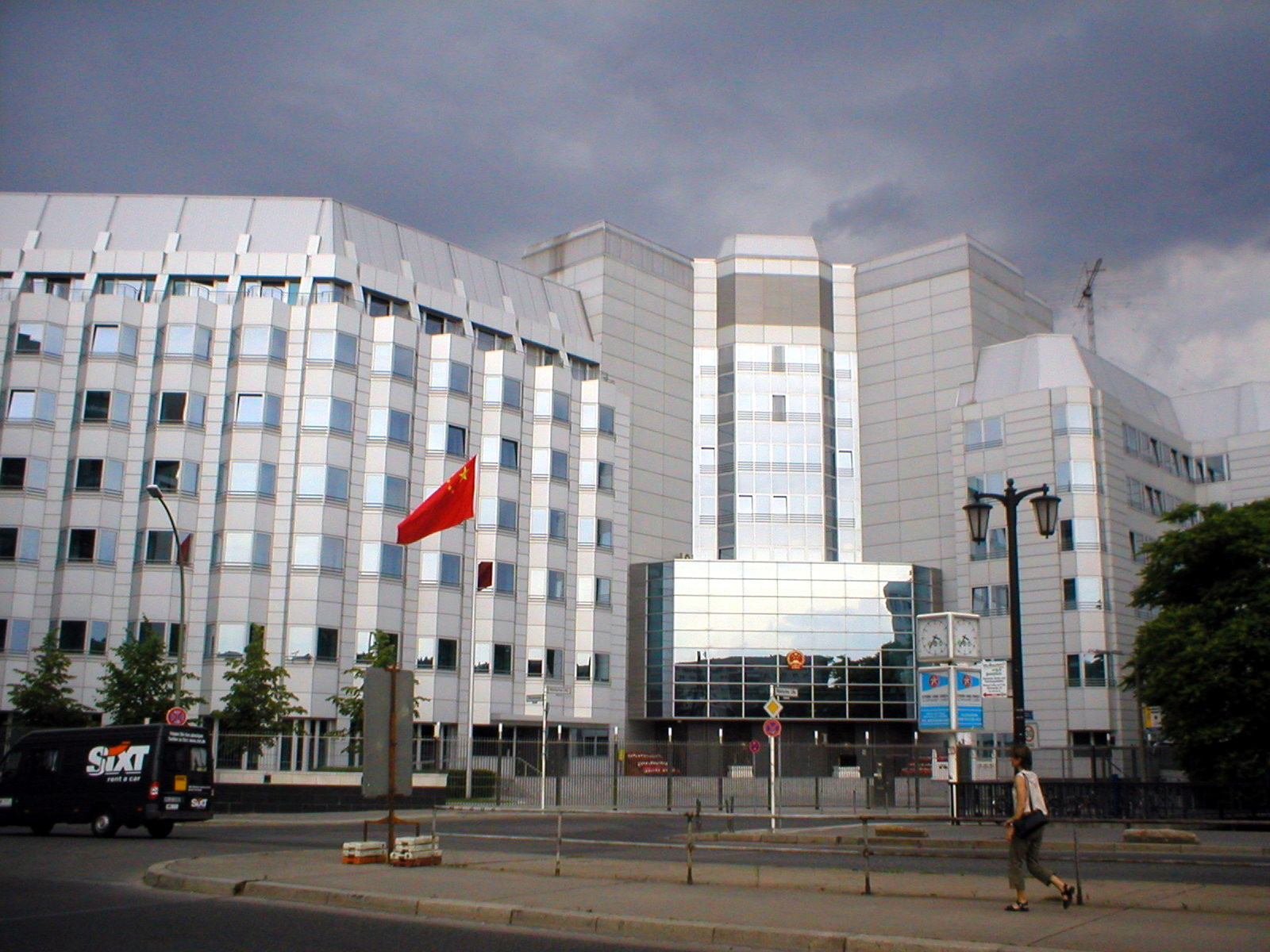 Embassy of the People's Republic of China in Berlin, Germany